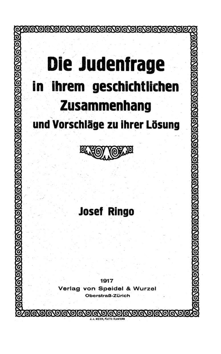 Cover of the book Die Judenfrage in ihrem geschichtlichen Zusammenhang und Vorschläge ihrer Lösung